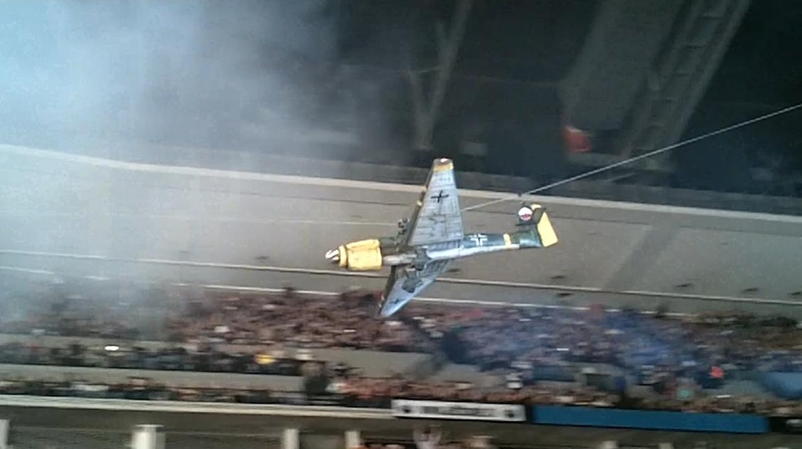 I took this photo from the the front row using a Kodak Playsport camera.